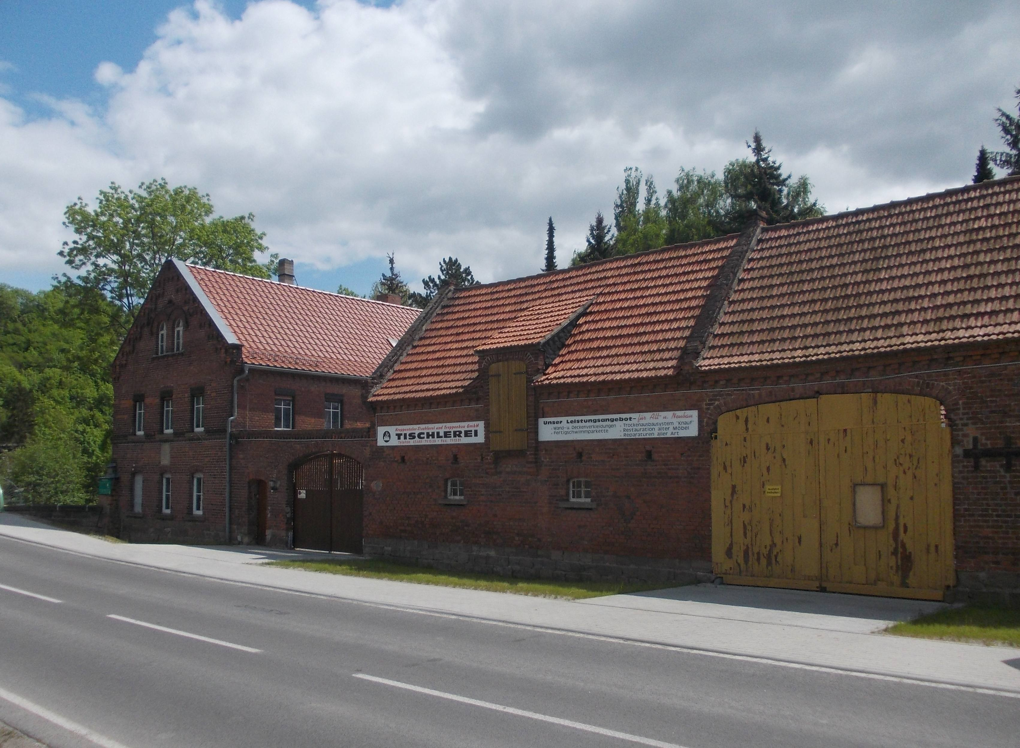 Neumühle ("new mill") at the end of Kroppen Valley near Schönburg (district: Burgenlandkreis, Saxony-Anhalt)